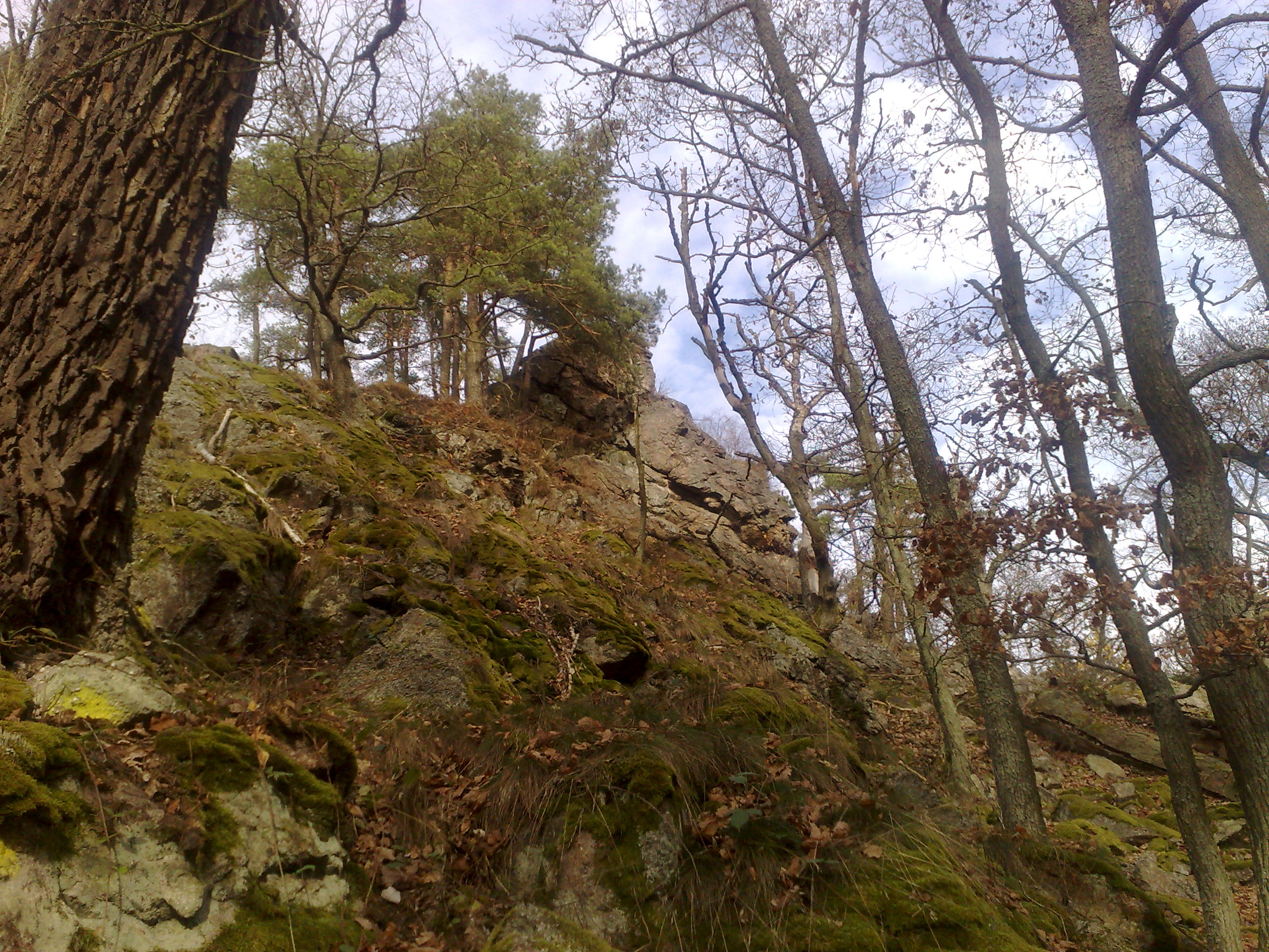 Rock formations on slopes of Žďár (629 m), a mountain east of Rokycany, Czech Republic.